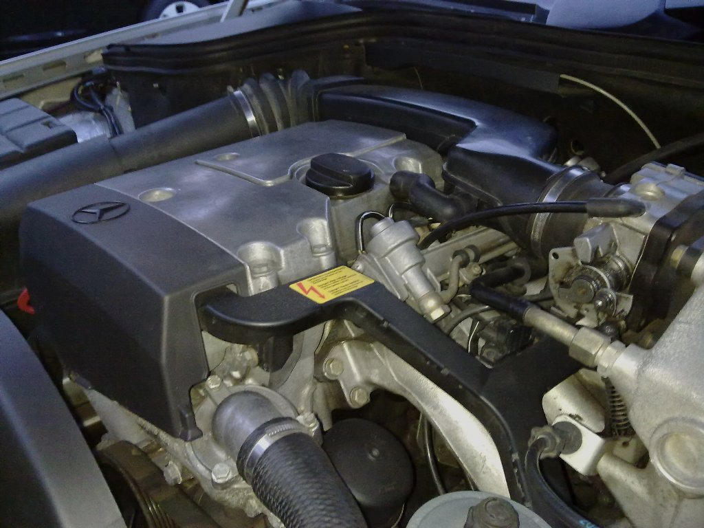 M111 E18 engine ('94 C180)